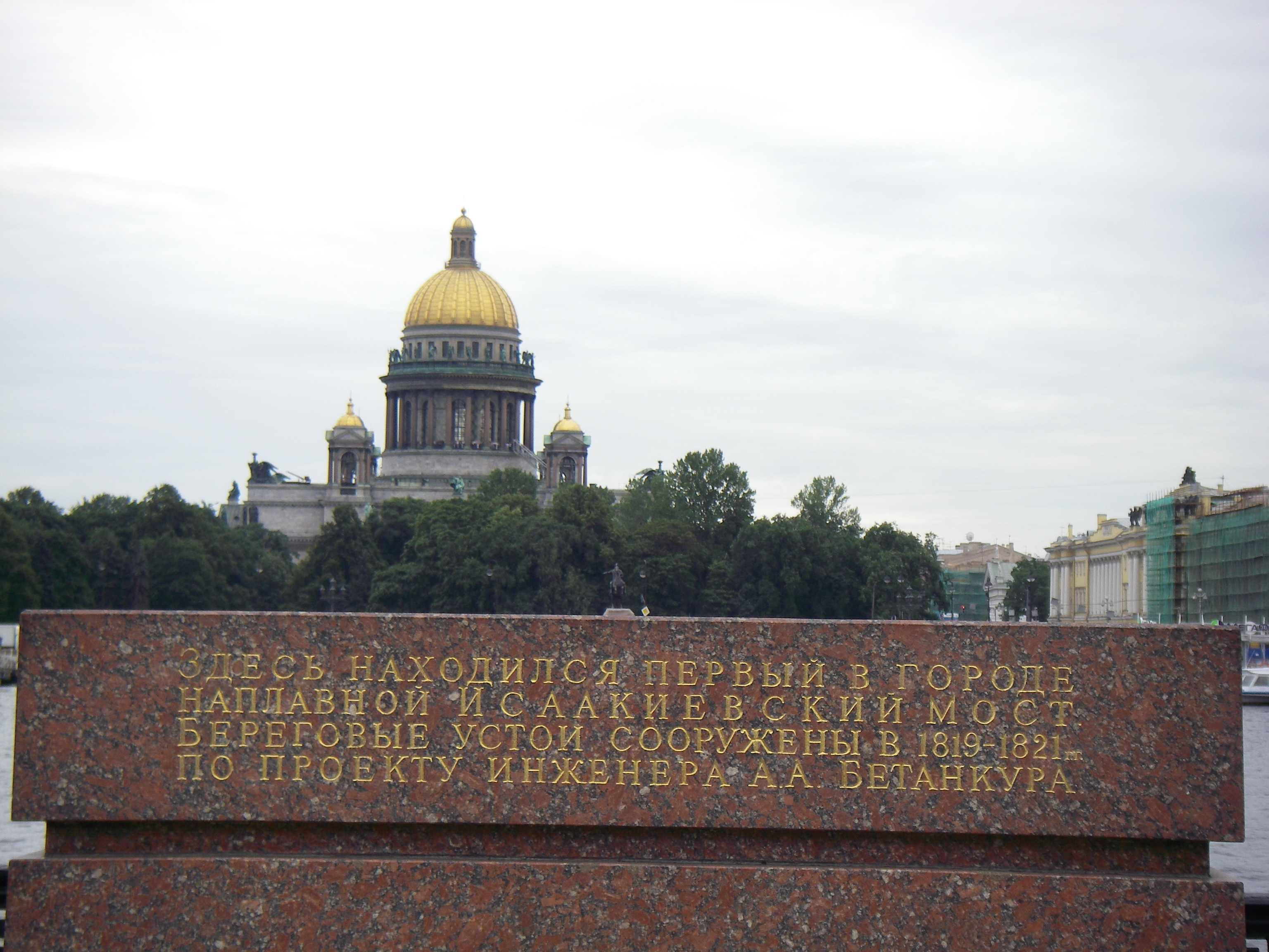 «First ponton bridge was here. Abutments were built in 1891-1821 by Agustín de Betancourt design»